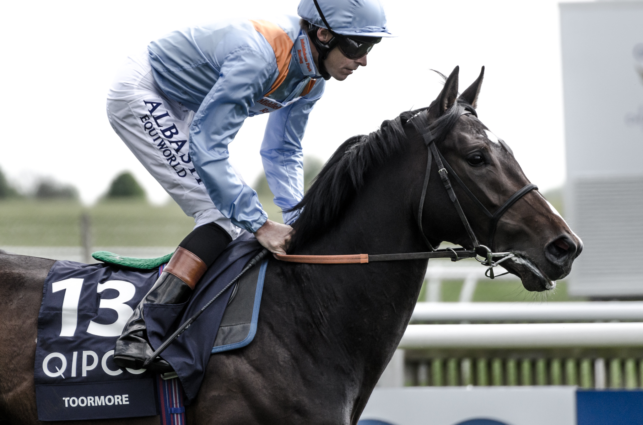 Newmarket, 03/05/14, sixth place in 2000 Guineas Stakes.